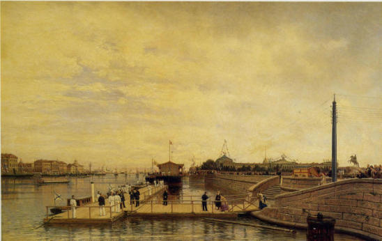 Bolshaya Neva. The painting in 1872.